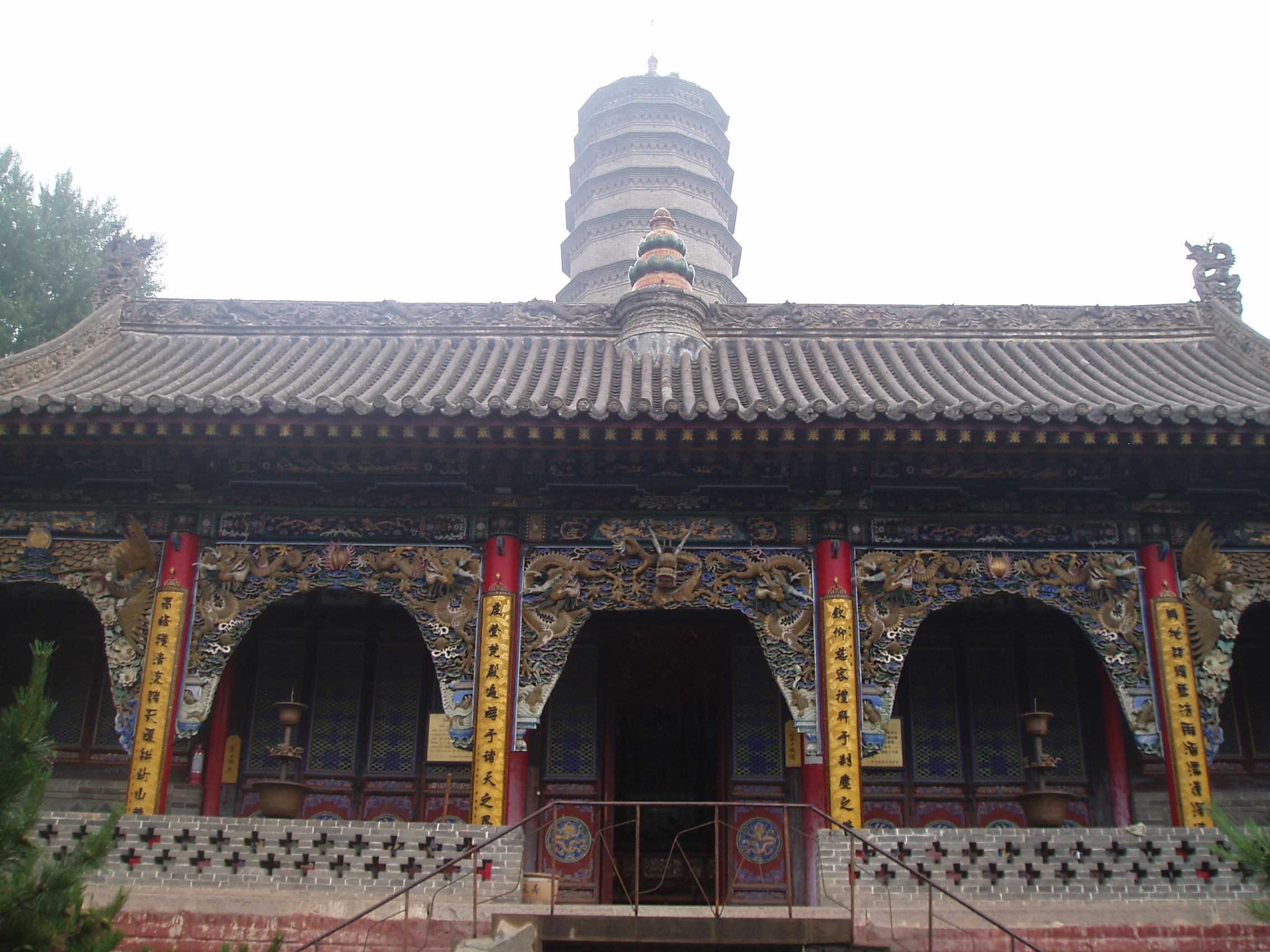 The Scripture Hall of the Zunsheng temple in Shanxi, China.